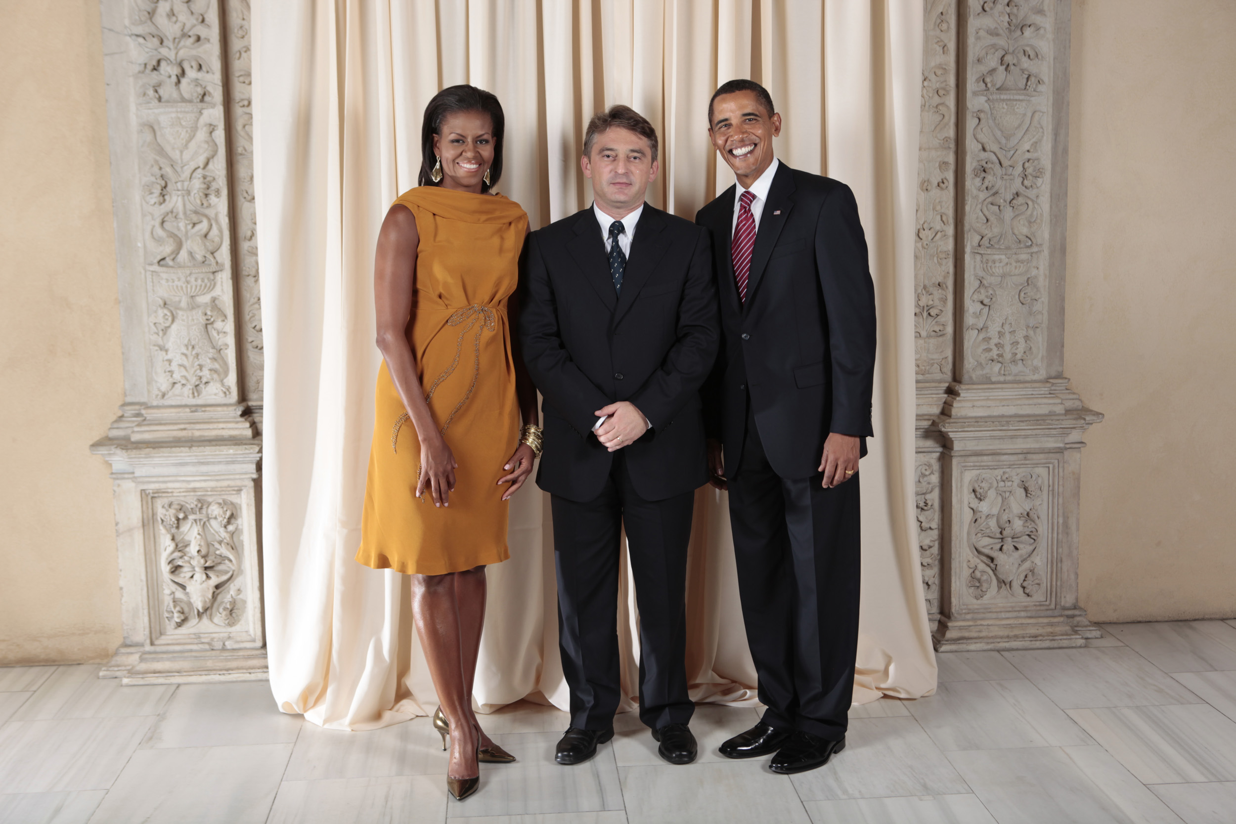 President Barack Obama and First Lady Michelle Obama pose for a photo during a reception at the Metropolitan Museum in New York with Željko Komšić of Bosnia and Herzegovina.